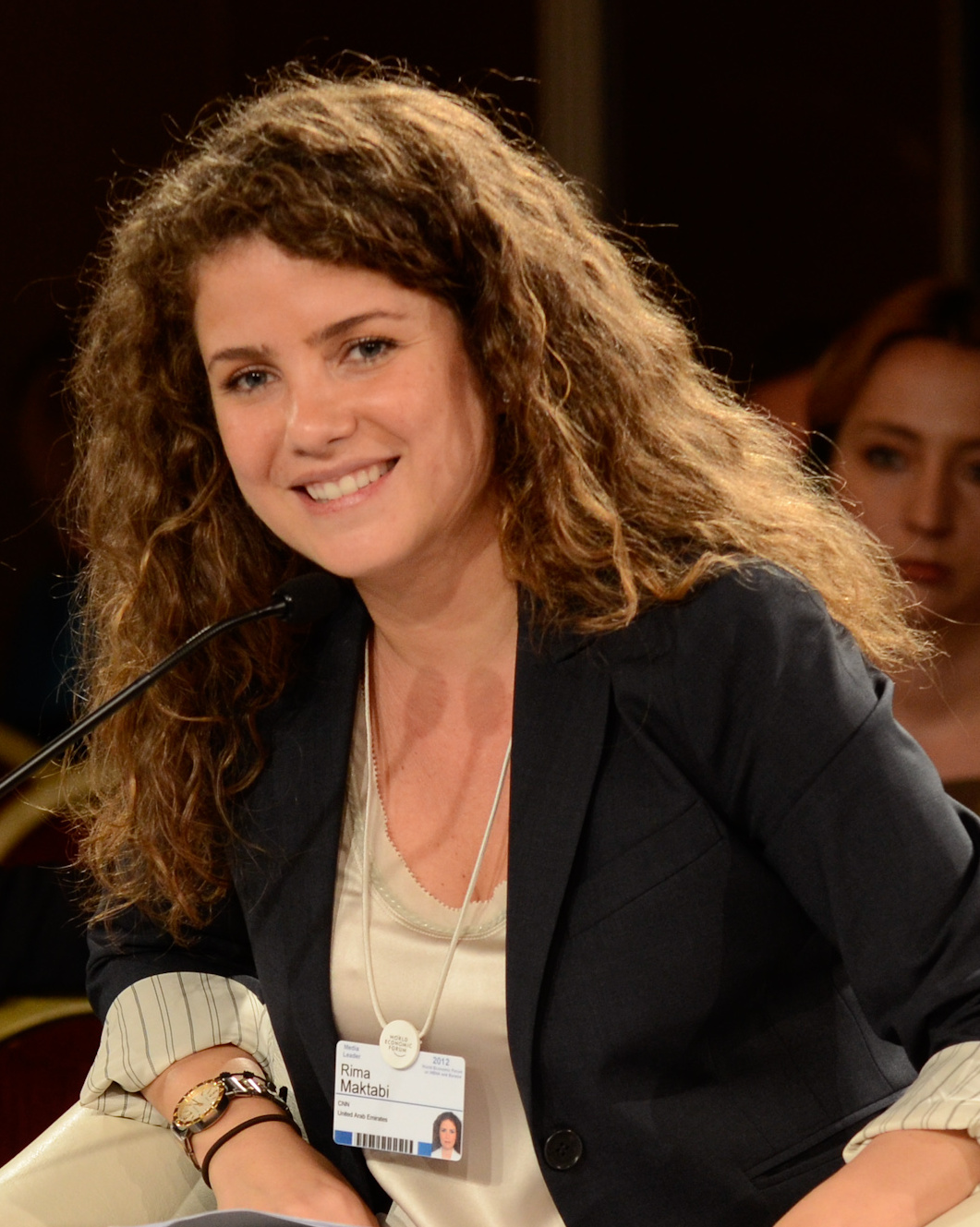 ISTANBUL, TURKEY, 6 June 2012 - Rima Maktabi, Anchor and Correspondent, CNN, United Arab Emirates; Young Global Leader, moderates an arena session at the World Economic Forum on the Middle East, North Africa and Eurasia in Istanbul, 4-6 June 2012. Copyright World Economic Forum ( by Dana Smillie